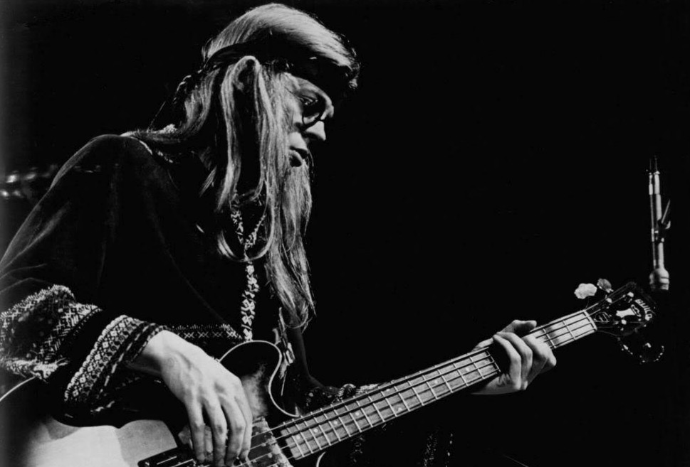 Photo of Jack Casady performing with Jefferson Airplane.